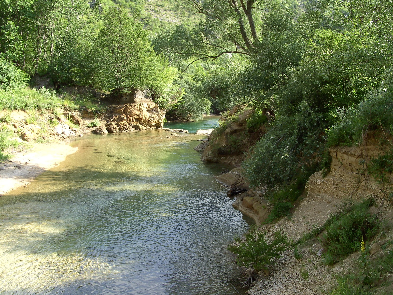 Krčić creek near Knin, Croatia